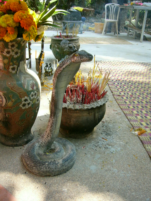 Snake sculpture “Jong ang” at Wat Kham Chanot (island temple) near Ban Dung, Udon Thani province, Thailand.